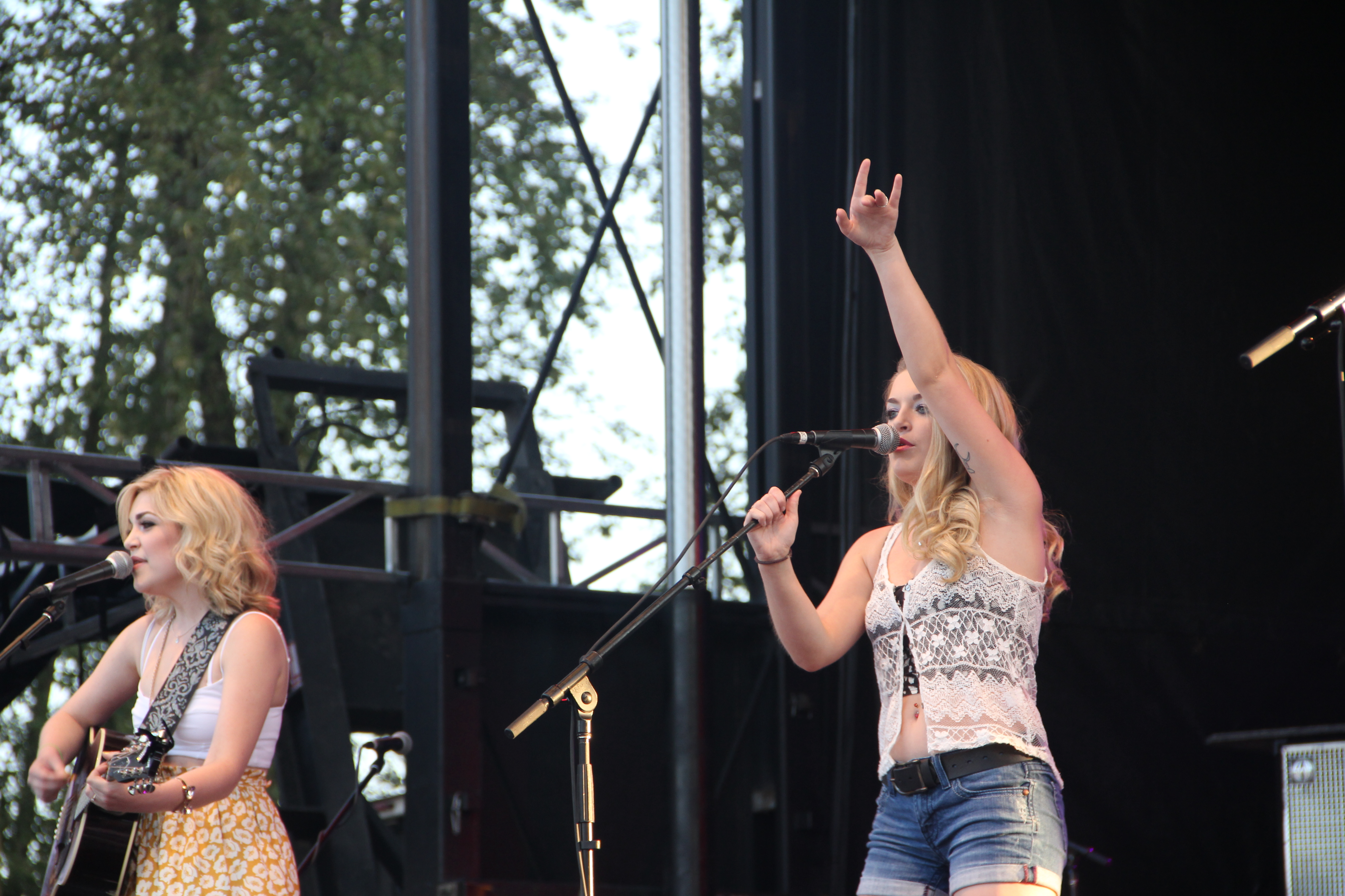 One More Girl at Rockin' River Music Festival in Mission, British Columbia